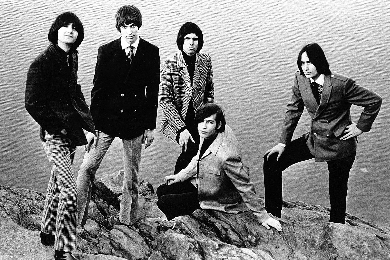 Photo of the rock group The Left Banke in 1966.